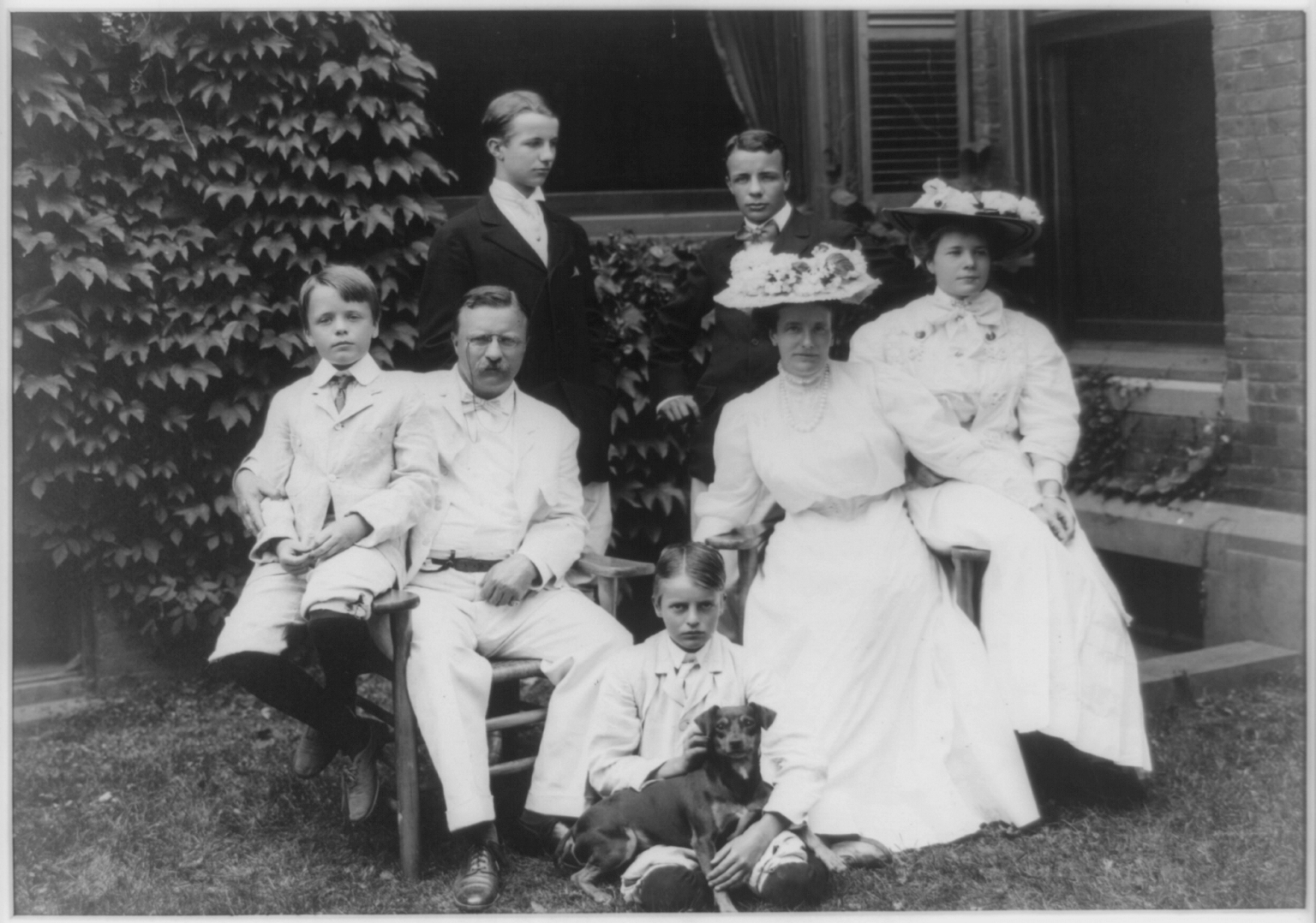 Mr. and Mrs. Theodore Roosevelt with children and dog, some seated, others standing, outdoors